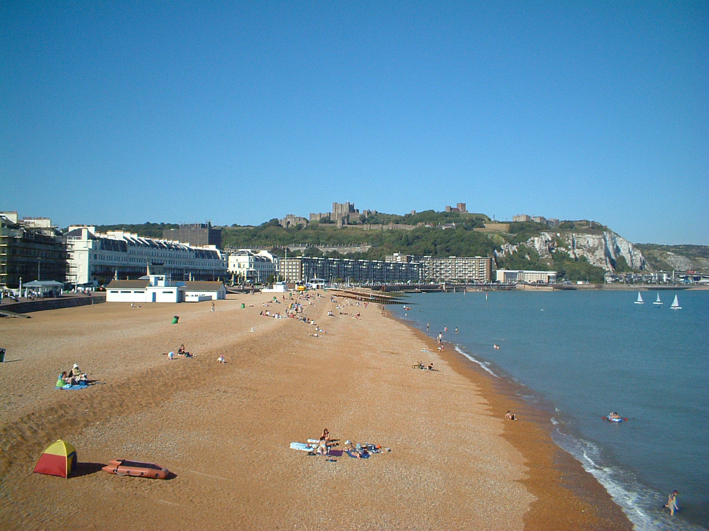 Taken by James Armitage, Sunday 28th August 2005.